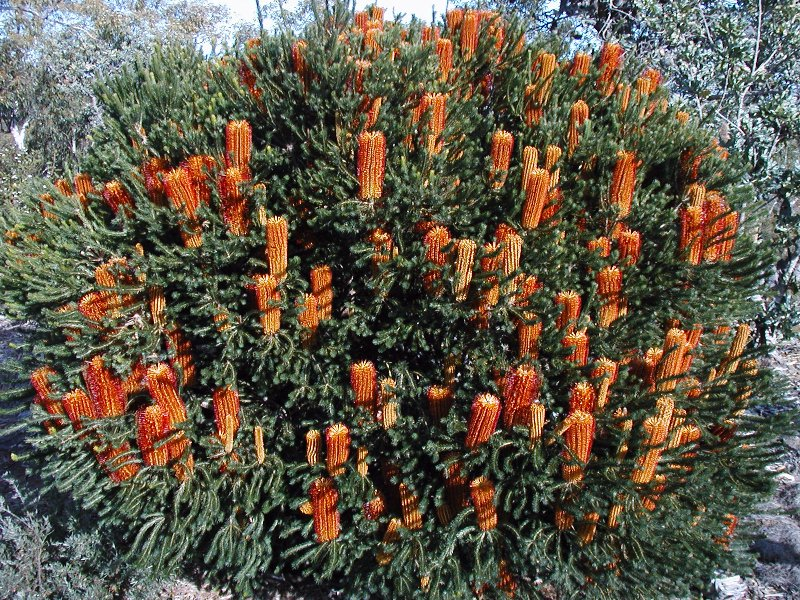 Banksia ericifolia 'Little Eric' flowering profusely cult. Kenthurst NSW Photo-July 04 Cas Liber